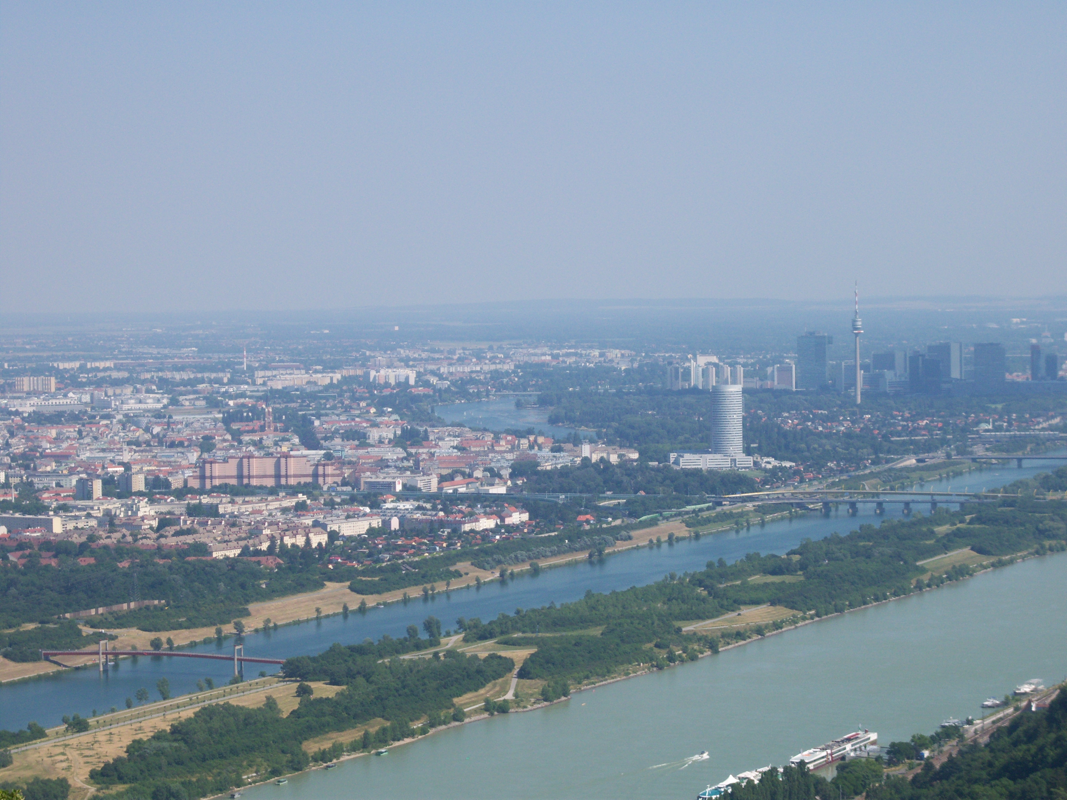 Austria, Vienna - Danube, New Danube and Old Danube